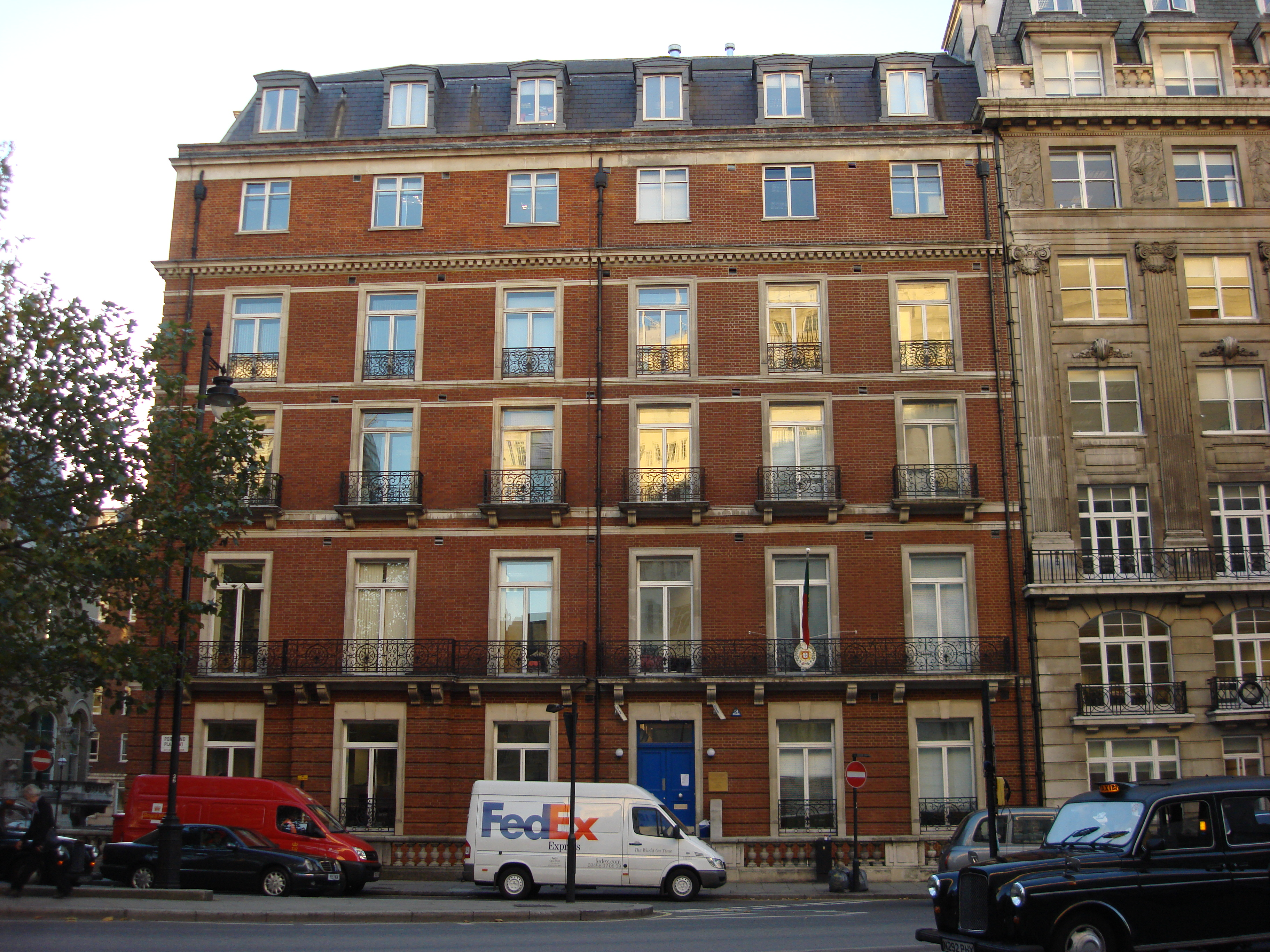 Portuguese Embassy, Consular Section, 3 Portland Place, London, UK